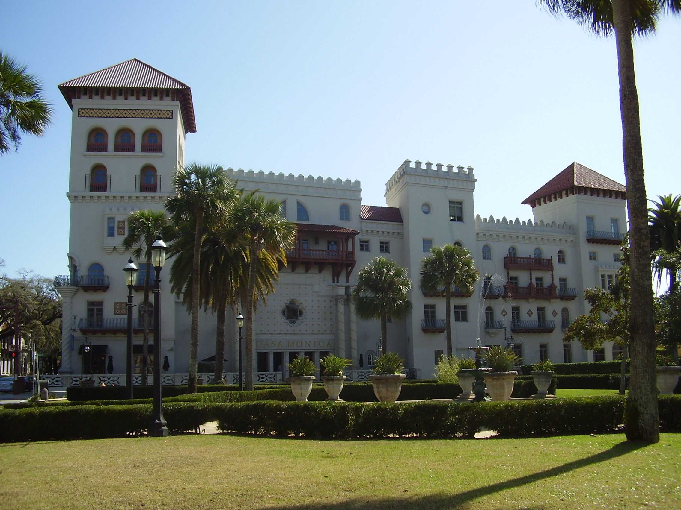 Casa Monica Hotel